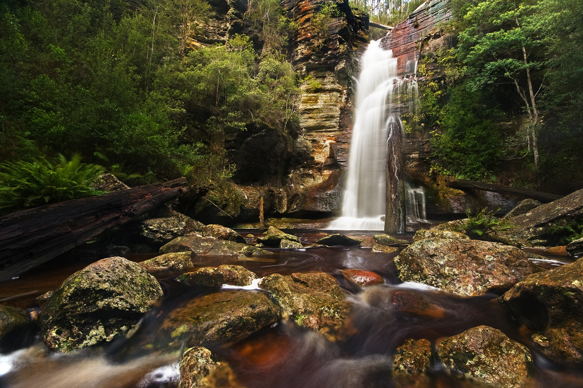 Snug Falls, Snug, Tasmania, Australia.